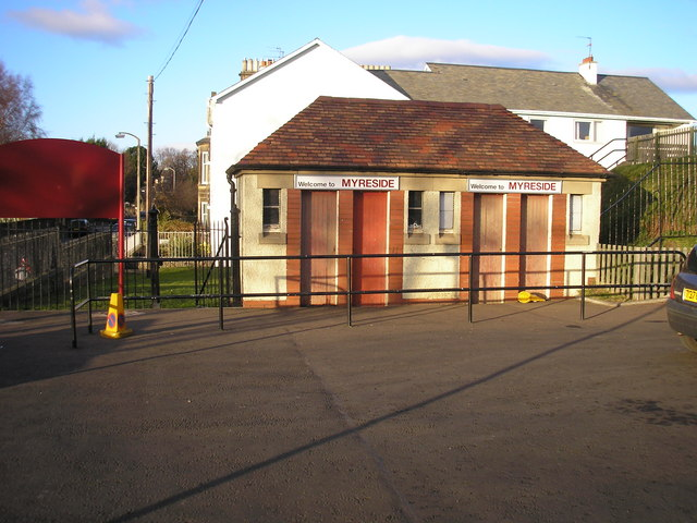 Turnstiles at Myreside The turnstyles at the northern end of the Myreside Sports Ground, the home of George Watson's College and Watsonians (the rugby club originally for the former pupils).